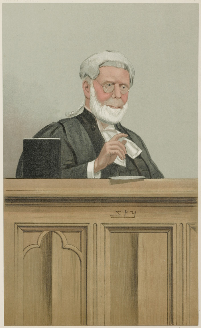 Caricature of Lord Justice Rigby. Caption read "a blunt Lord Justice".